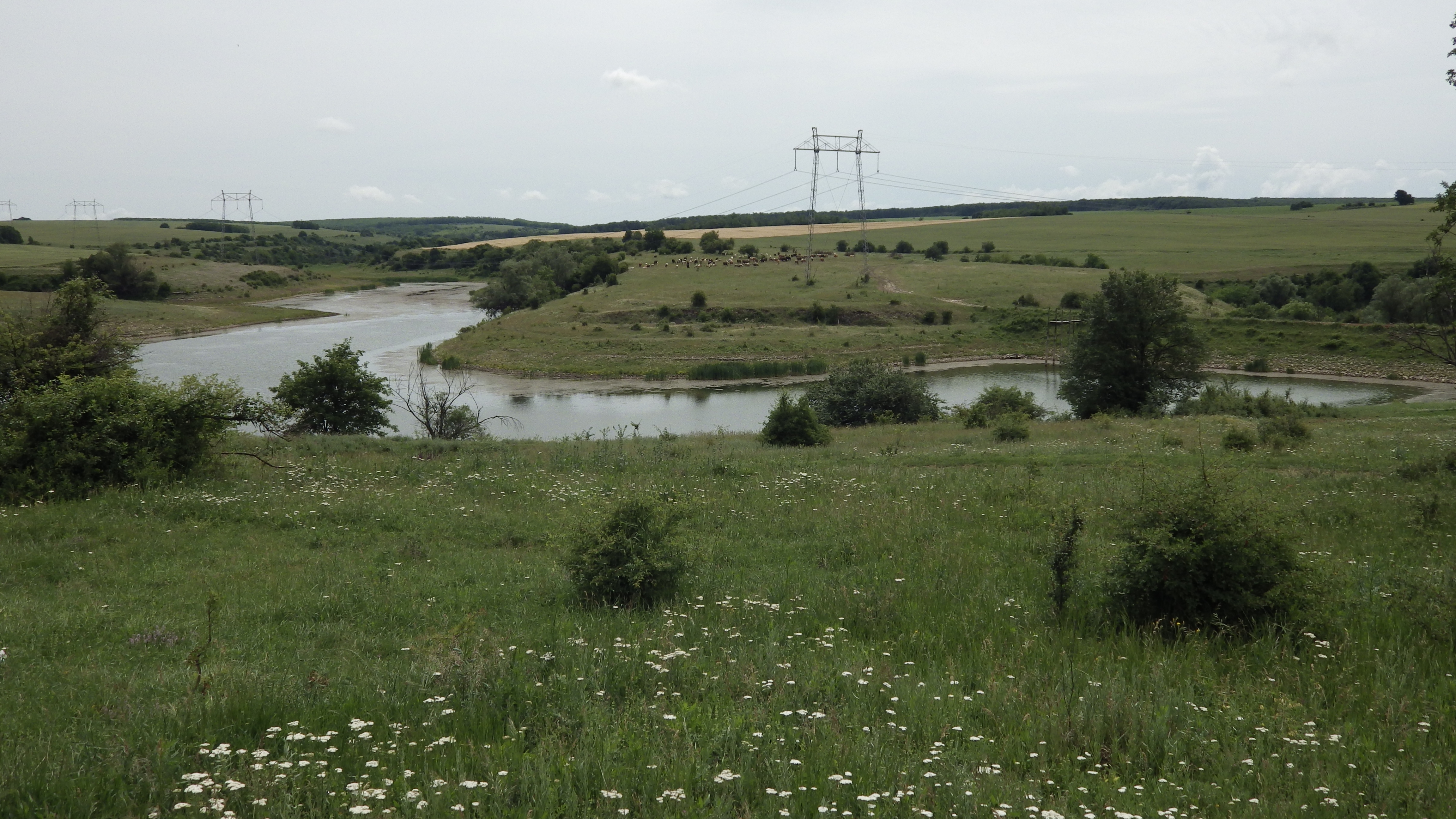 River Tuchenitsa near village Tuchenitsa